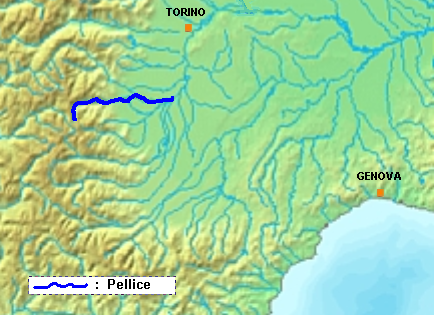 Location of Pellice creek (TO, Italy)